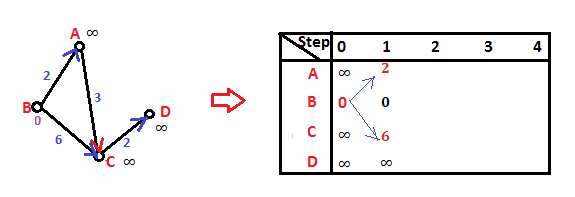 Bước 1